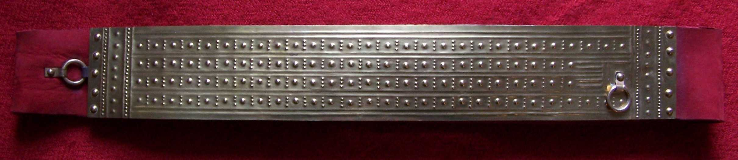 replica of the hallstatt beltplate (Guertelblech) from Hirschlanden, grave 11; done by Stefan Jaroschinski